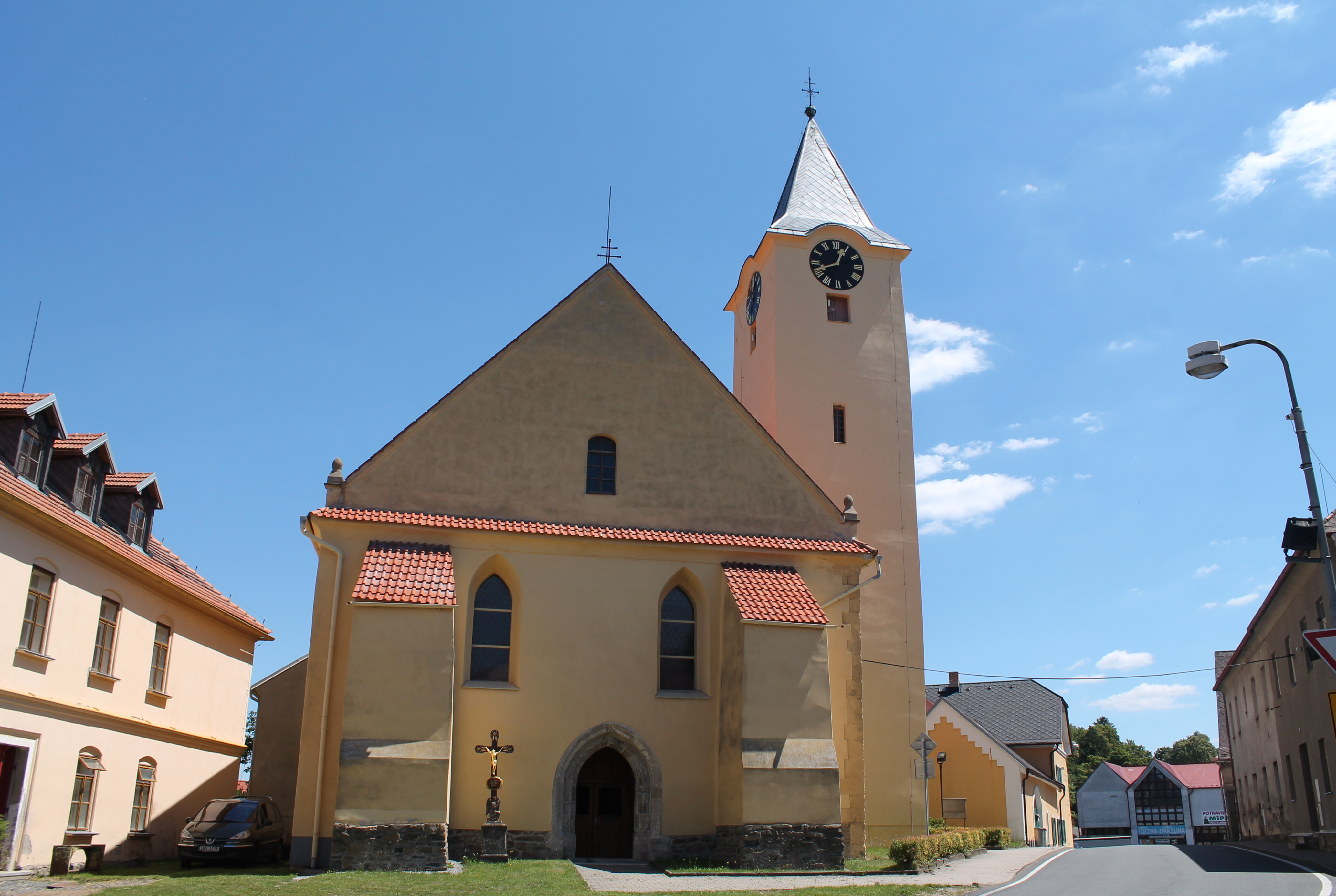 Church of Saint Lawrence, Zbraslavice, Kutná Hora District, Czech Republic